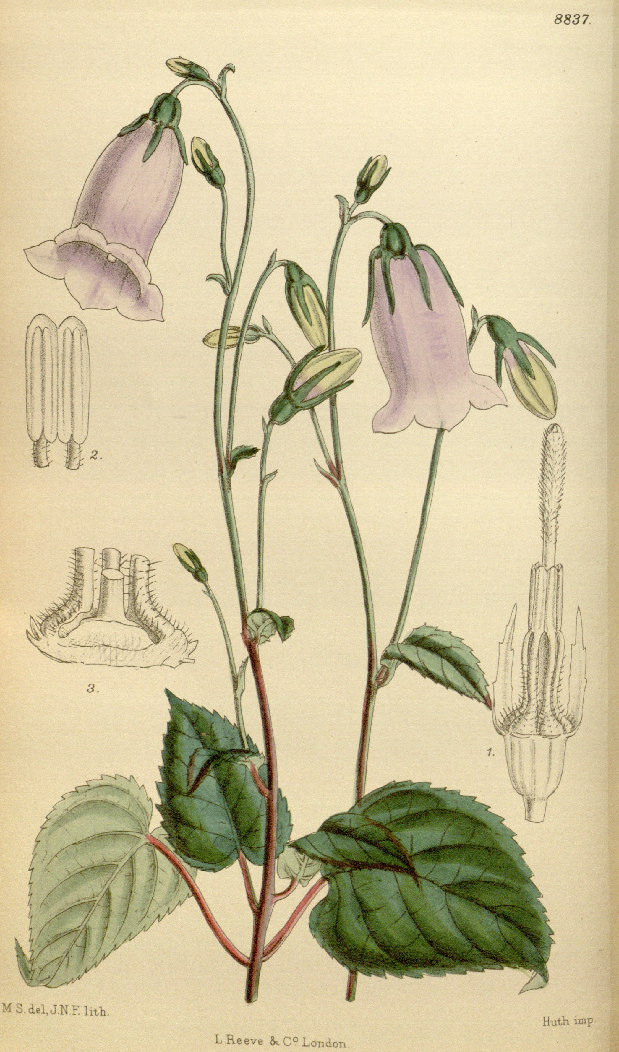 Symphyandra asiatica (now known as Hanabusaya asiatica), Campanulaceae